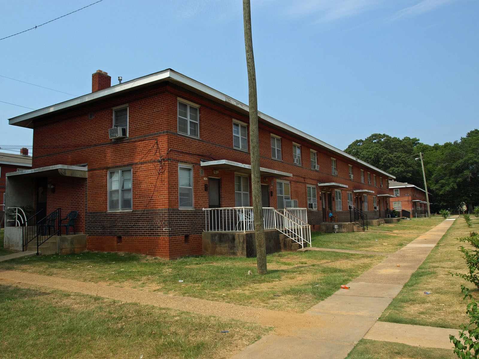 The Cleveland Court Apartments, former home of Rosa Parks in Montgomery, Alabama